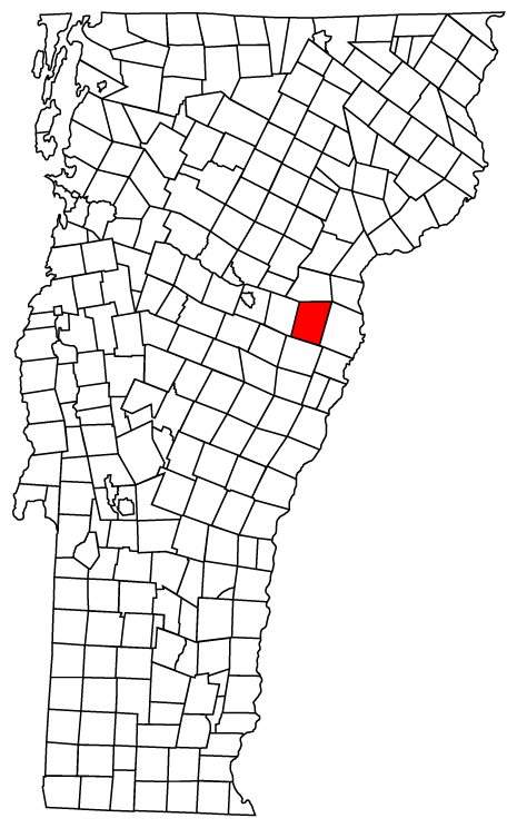 Description: Map of Vermont towns with Topsham highlighted Source: Map created by Jared C. Benedict on 26 March 2004. Copyright: © Jared C. Benedict.